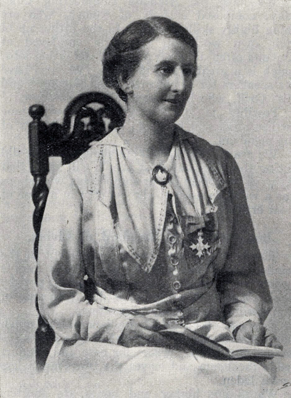 Laura Annie Willson in Calderdale Industrial Museum @CaldIndusMuseum · Here’s probably the best picture we have of Laura Annie Willson. It’s a scanned image from “The Woman Engineer” Vol 2 No 8, dating from the mid 1920s. We think that means any copyright has expired but it was scanned for us by the Institution of Engineering Technicians